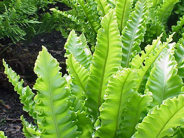 Species: Phyllitis scolopendrium Family: ' Image No. 2